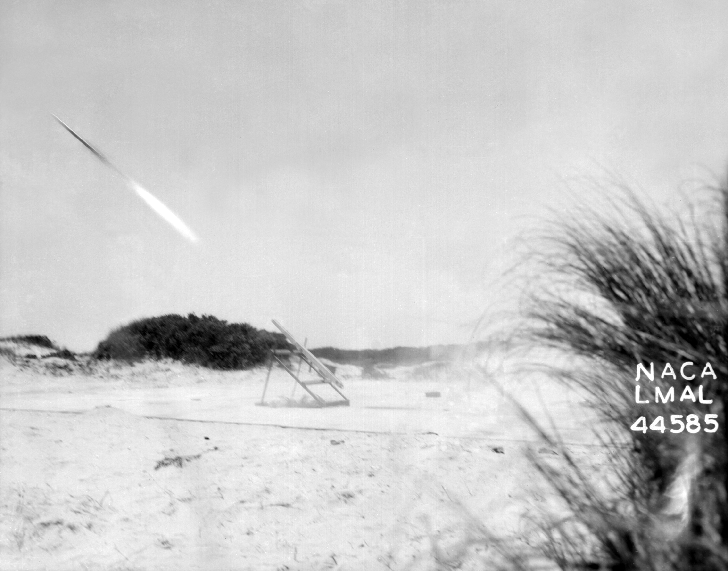 The launching of the first rocket at the NACA's Wallop's Island Facility on June 27, 1945. Joseph Shortal described this launch as follows: "The initial operations on June 27, 1945 on Wallops were to check the tracking station location and operation, check the use of CW (Doppler radar for measuring velocities of missiles and to gain experience with actual rockets. Five 3.25 inch rockets were fired at 39.4 elevation angle, and one each at 33.7, 29.3, and 21.5. All were fired in a direction parallel to the beach to simulate the first Tiamat missile launching. Four of the eight rockets were tracked satisfactorily by the SCR-584 radar located at the mainland tracking station 2 and a strong signal was obtained on the CW radar."